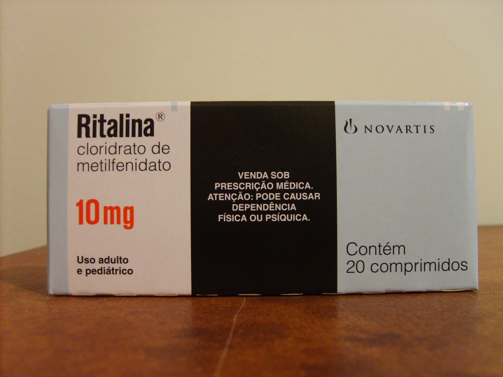 Medicamento Ritalina (Brasil). Own work.